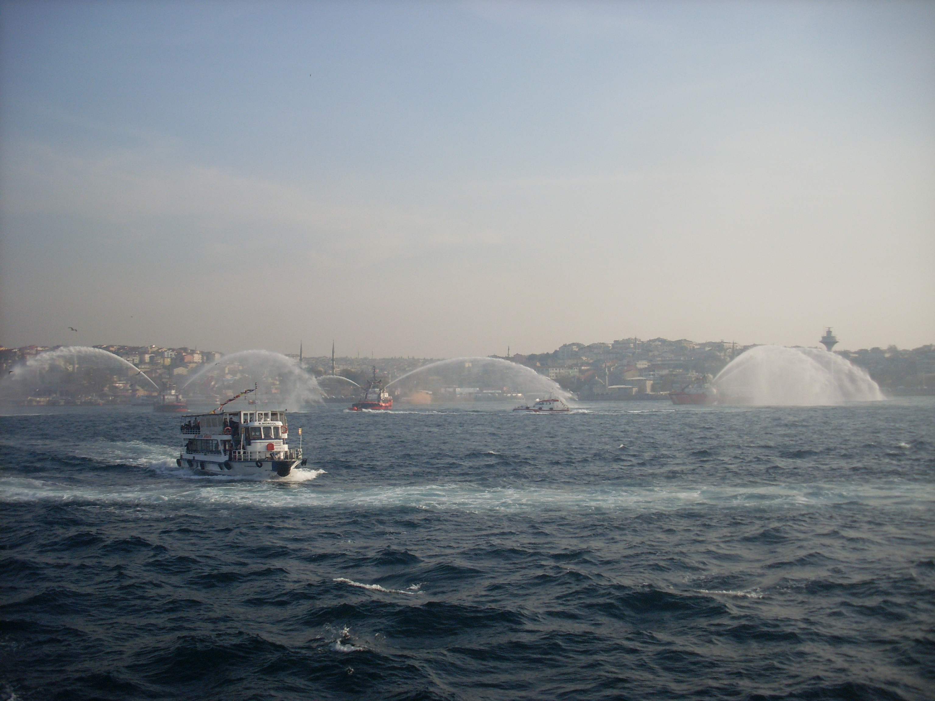 Marmaray, opening ceremony, Üsküdar 29 Oct 2013